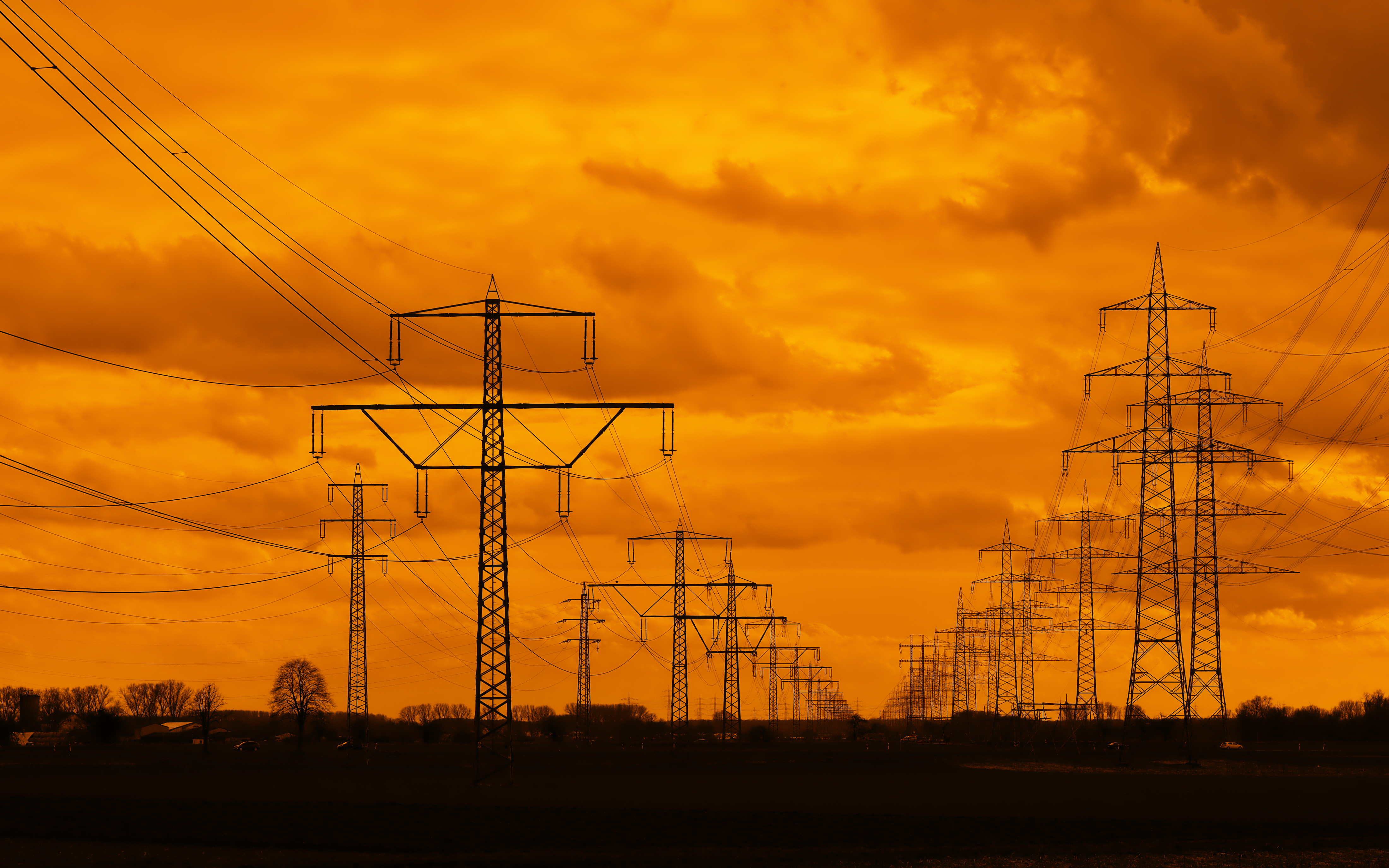 Power lines south of Pfungstadt in fiery sky (colour is artificial). To the outer left an older 110 kV line, left of center the North–South Powerline, right of center a 4-circuit traction current line, to the rightmost a 3-circuit 380 kV line (with room for extension)